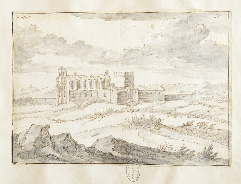 View of the village of Montfavet in the Vaucluse department, southern France.